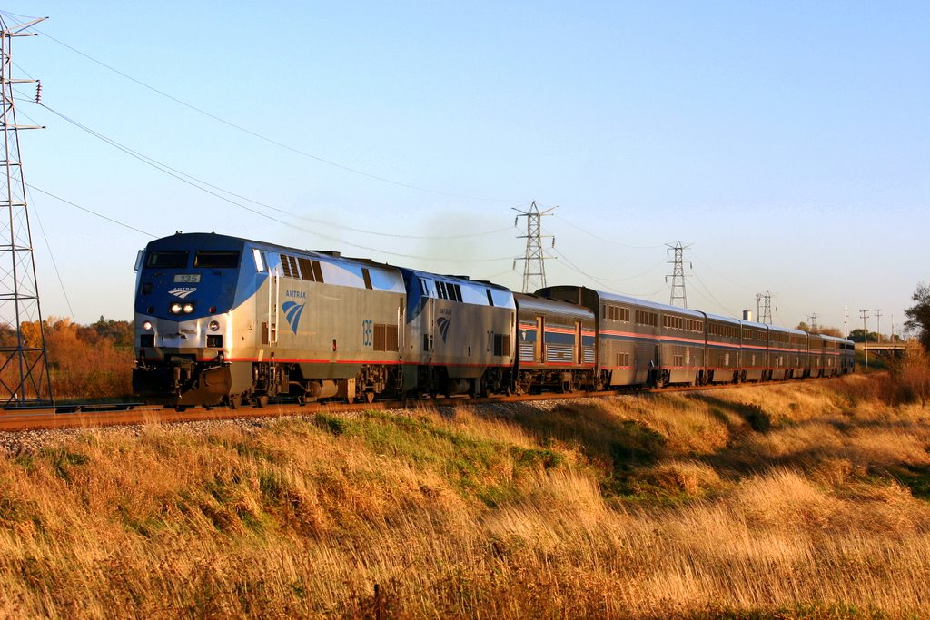 Westbound Empire Builder / Tearing through Wisconsin